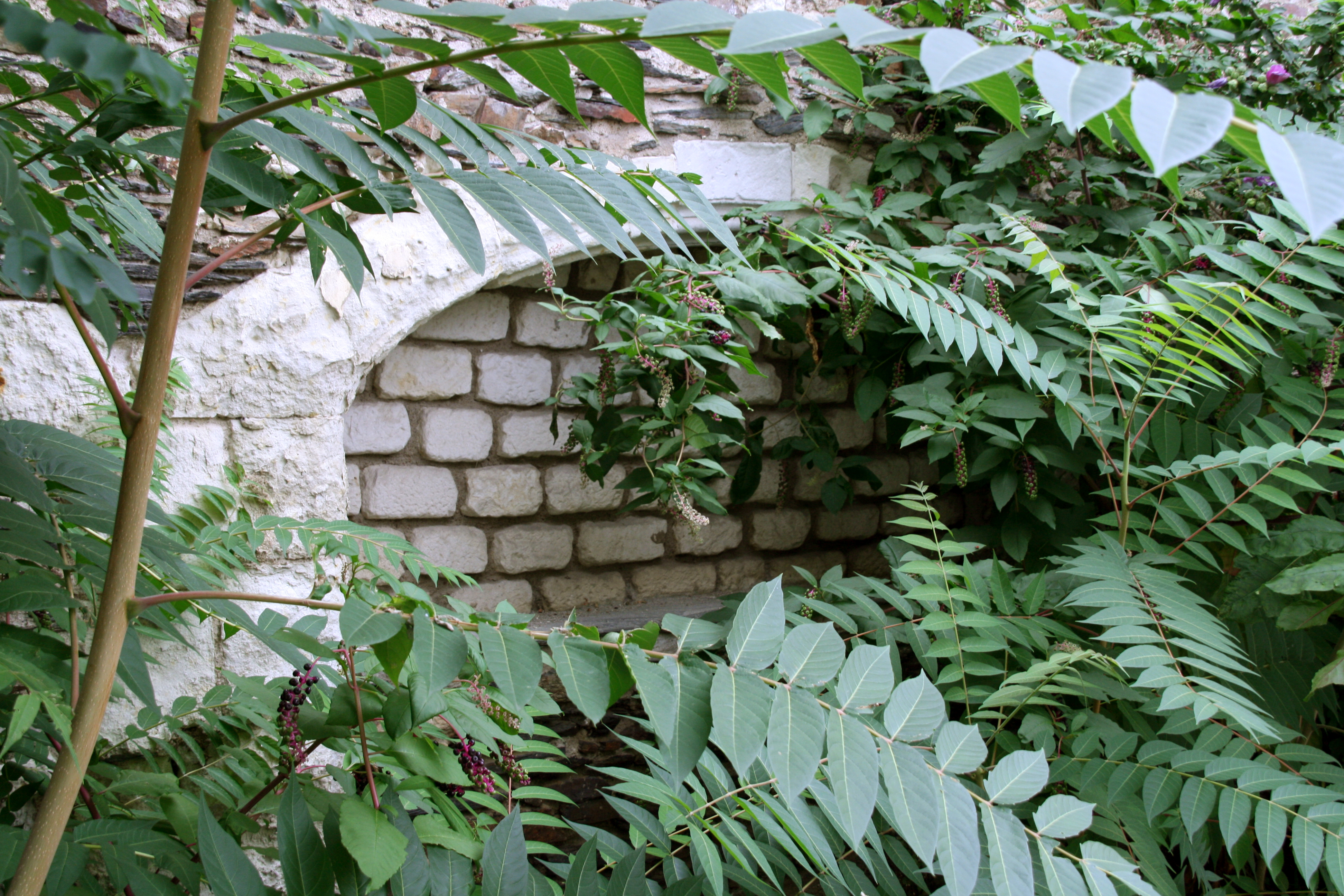 "Enfeu", or wall-niche tomb in the west wall of the "Chapelle des Augustins", a former chapel built in 1480 in the district of La Doutre, Angers, Maine-et-Loire, Pays de la Loire, France.